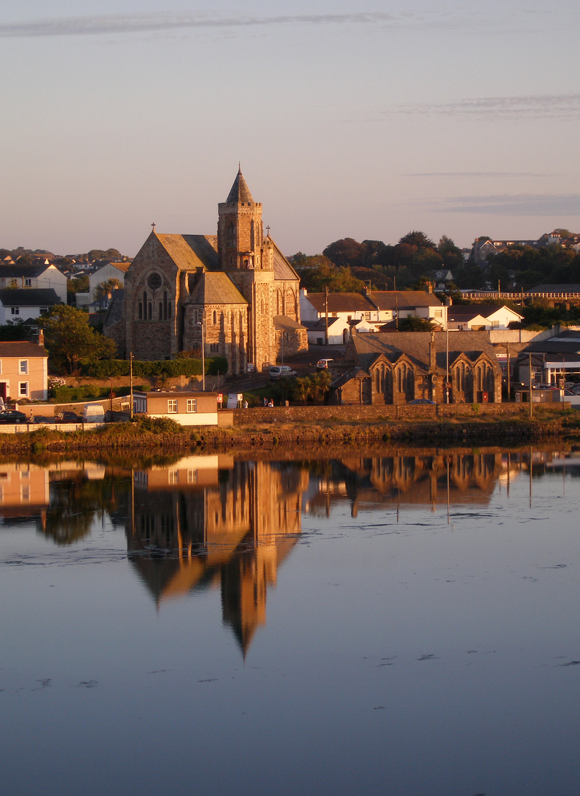 Reflection of Hayle in the Copperhouse Pool at high-tide from King George V Memorial walk